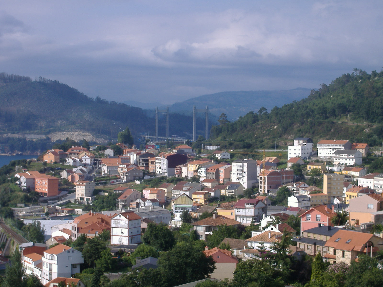 View of the downtown Chapela, and, in the distance, Rande Bridge, taken from the Pinar do Crego.